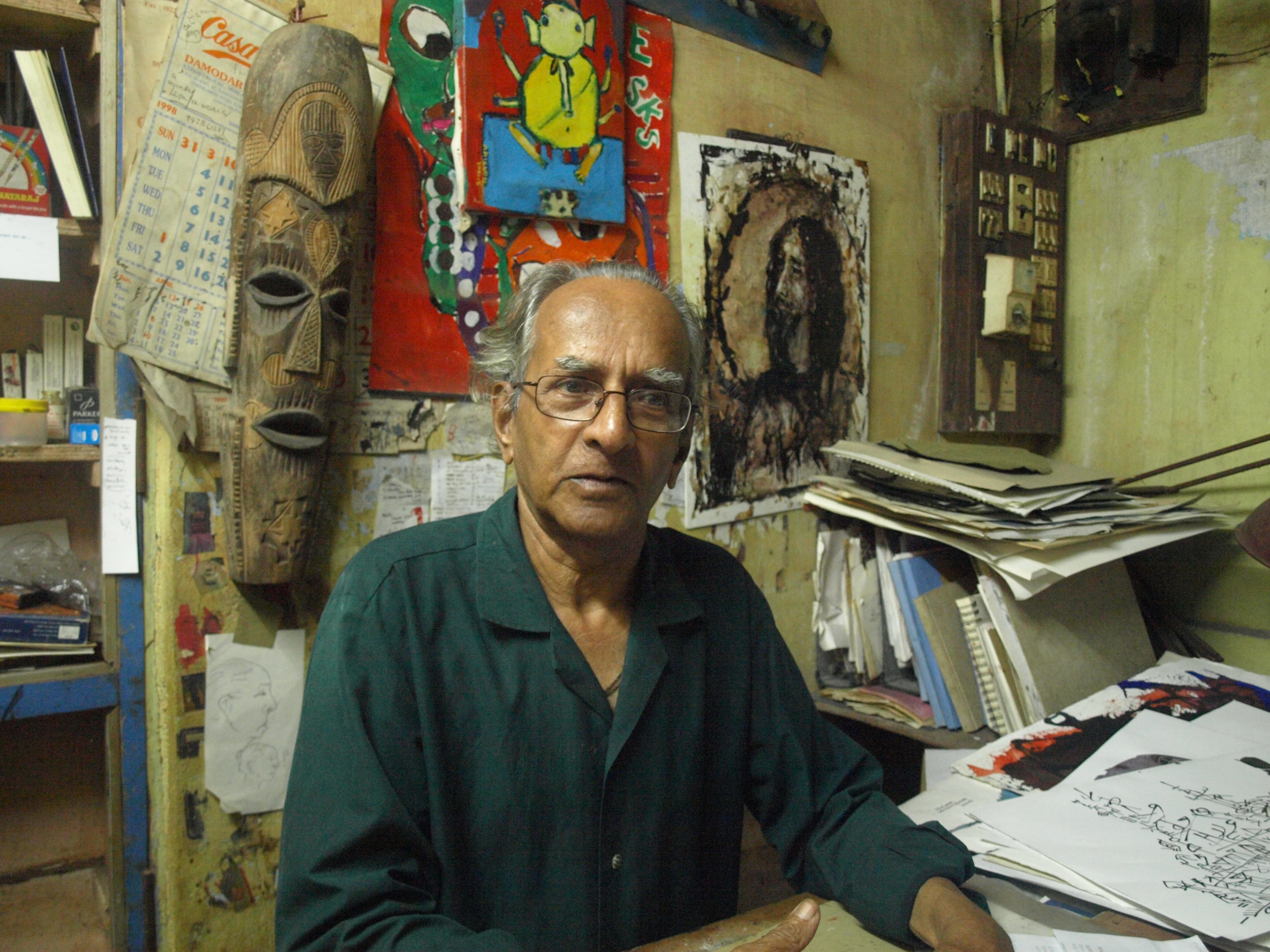 Photo by Frederick Noronha.